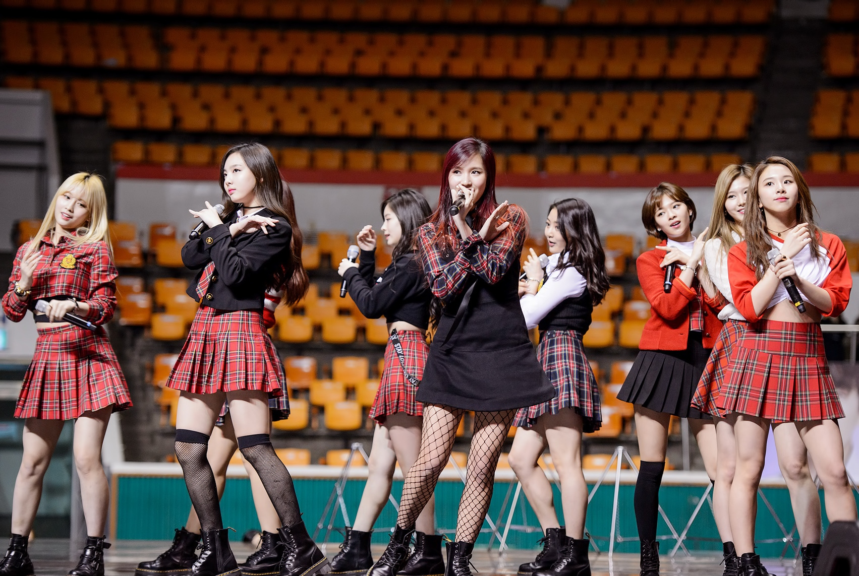 Twice performing at Seoul Arts College on February 27, 2016.